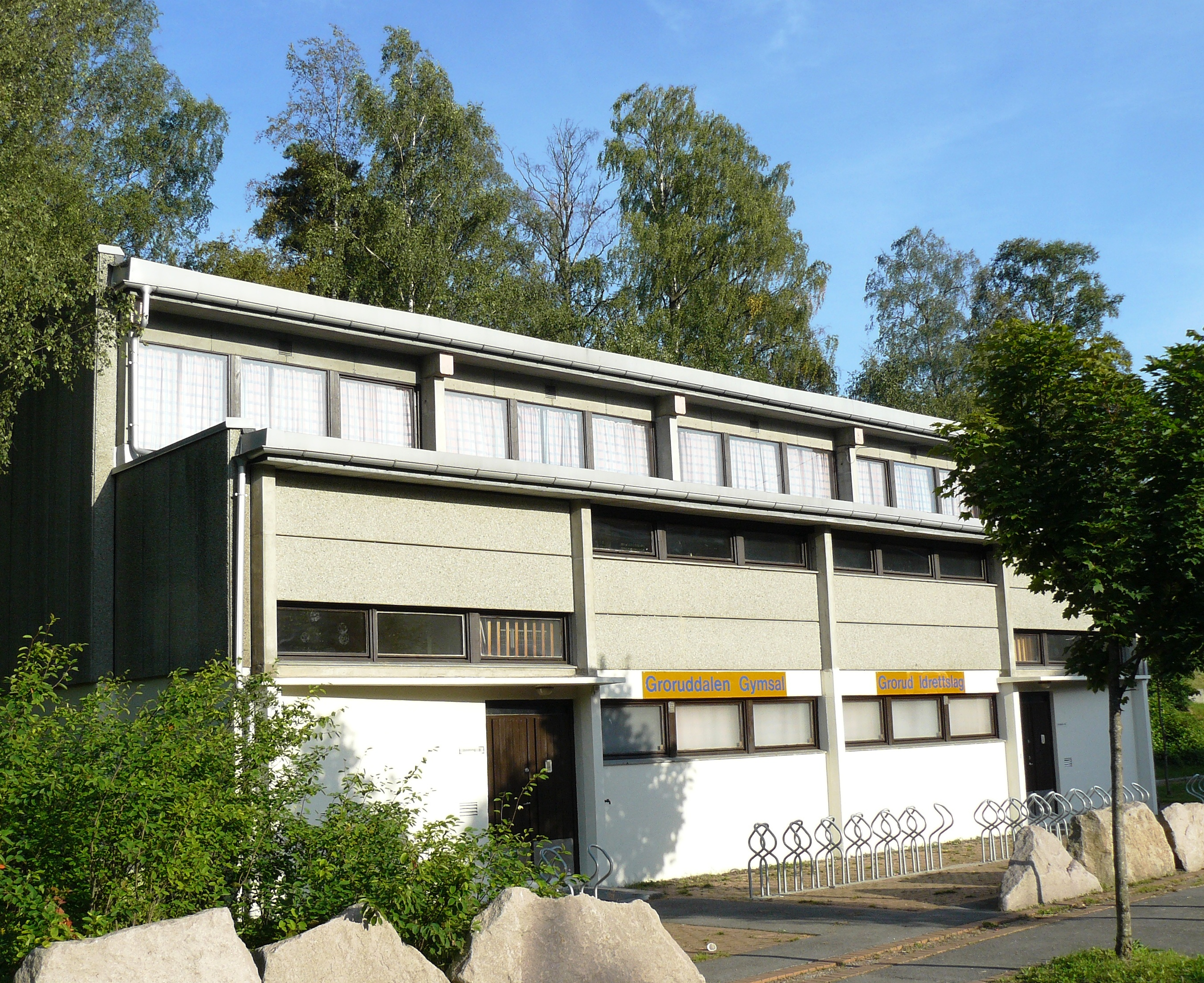 Grorud idrettslags idrettshall, is the indoor training facility for Grorud sportsclub at Grorud, Oslo